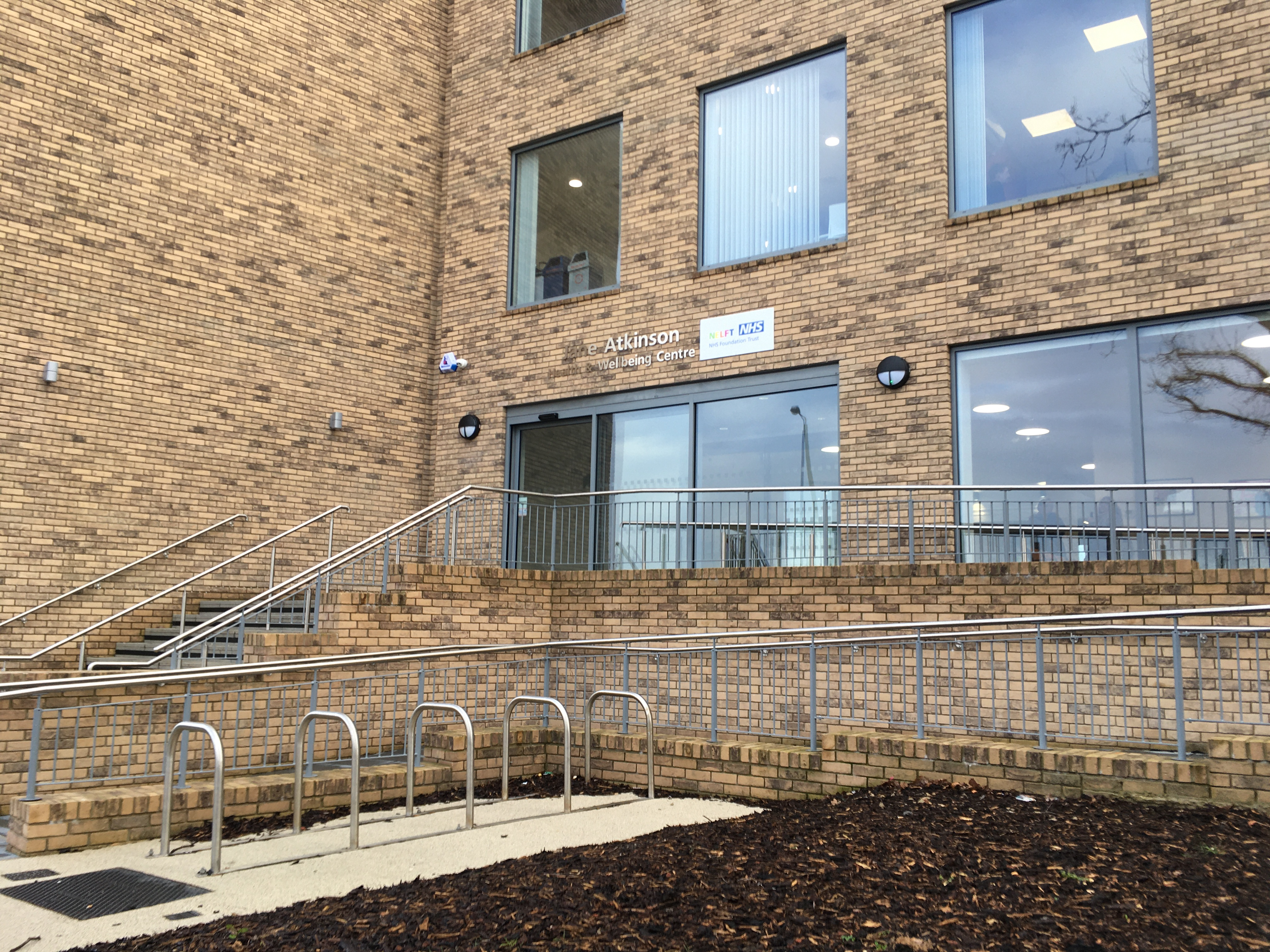 The entrance of the Jane Atkinson Health and Wellbeing Centre